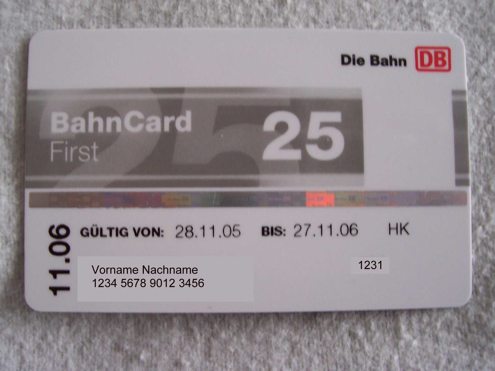 A BahnCard First 25